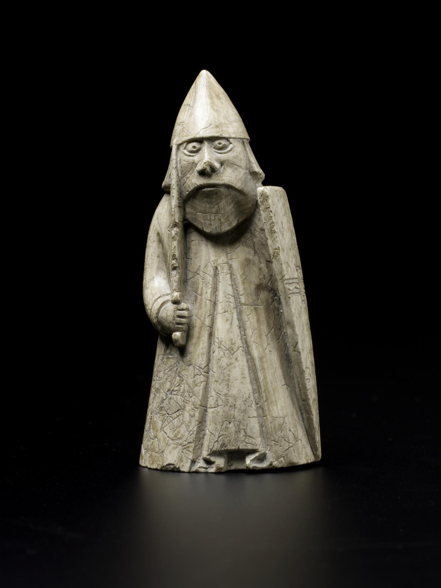 This file was uploaded as part of a partnership between Wikimedia UK and the National Museum of Scotland. This tag does not indicate the copyright status of the attached work. A normal copyright tag is still required. See Commons:Licensing. This work is free and may be used by anyone for any purpose. If you wish to use this content, you do not need to request permission as long as you follow any licensing requirements mentioned on this page.